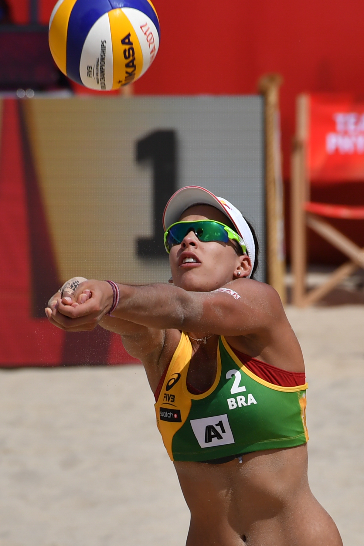 30/7/17, Vienna, Austria, sports, beach volleyball, FIVB Beach Volleyball World Championships.